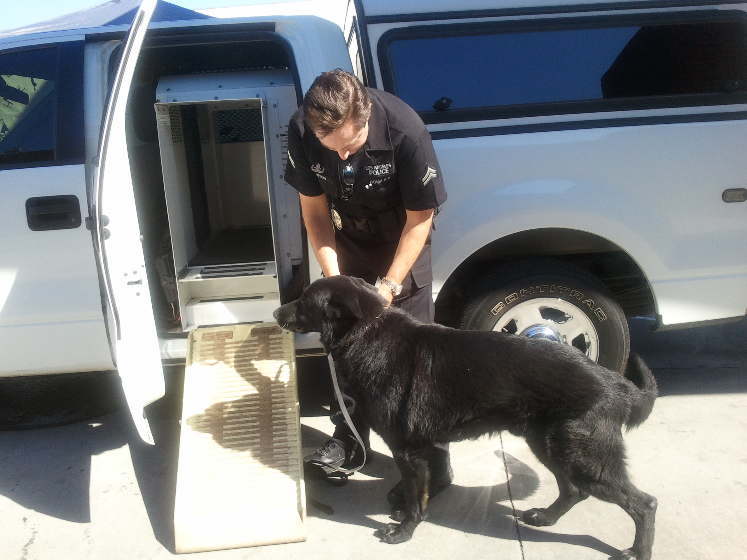 An all black german shephard Bomb K-9 dog with the Los Angeles Police Department.